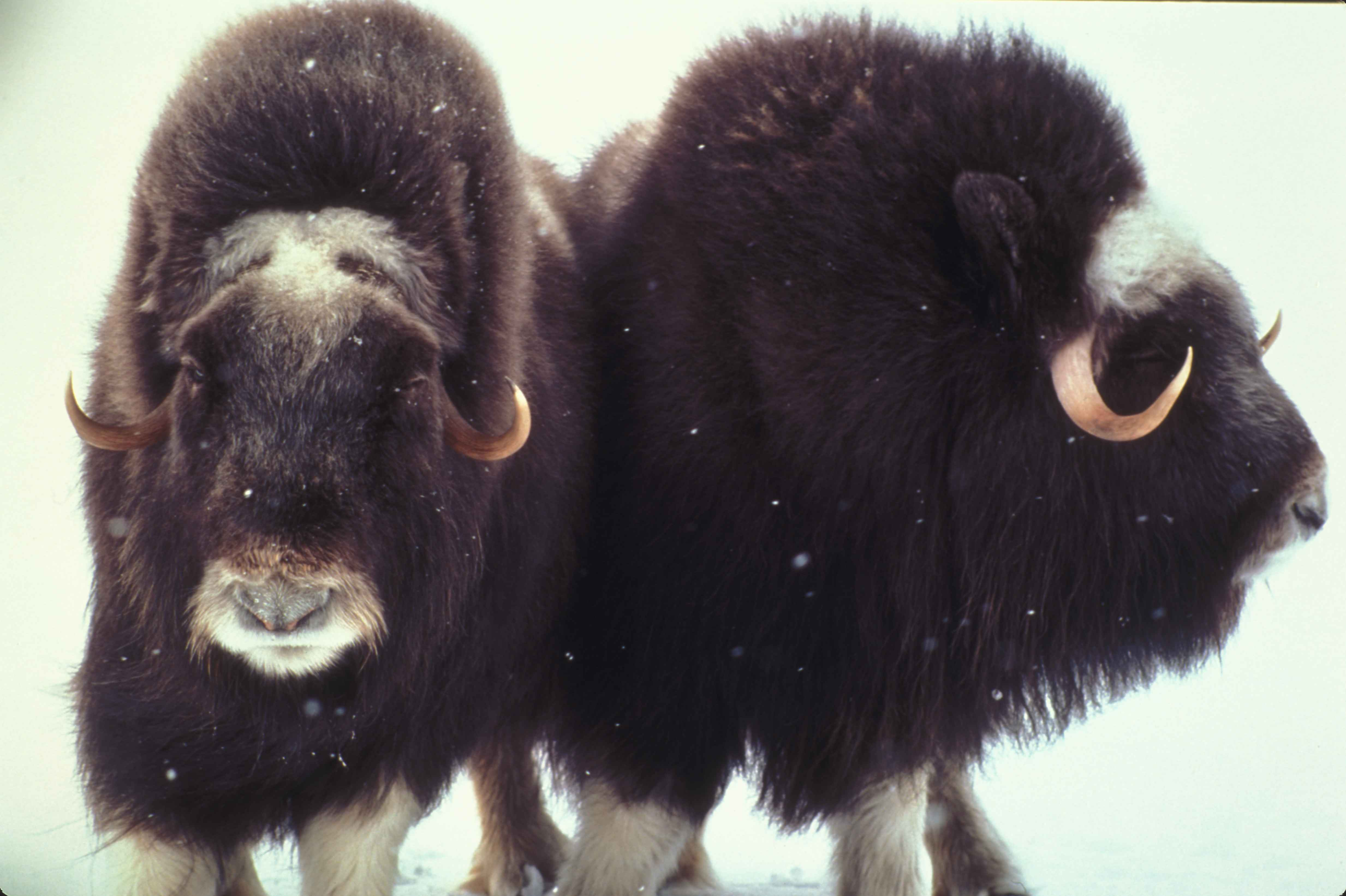 Image title: Muskox in the snow in Alaska Image from Public domain images website